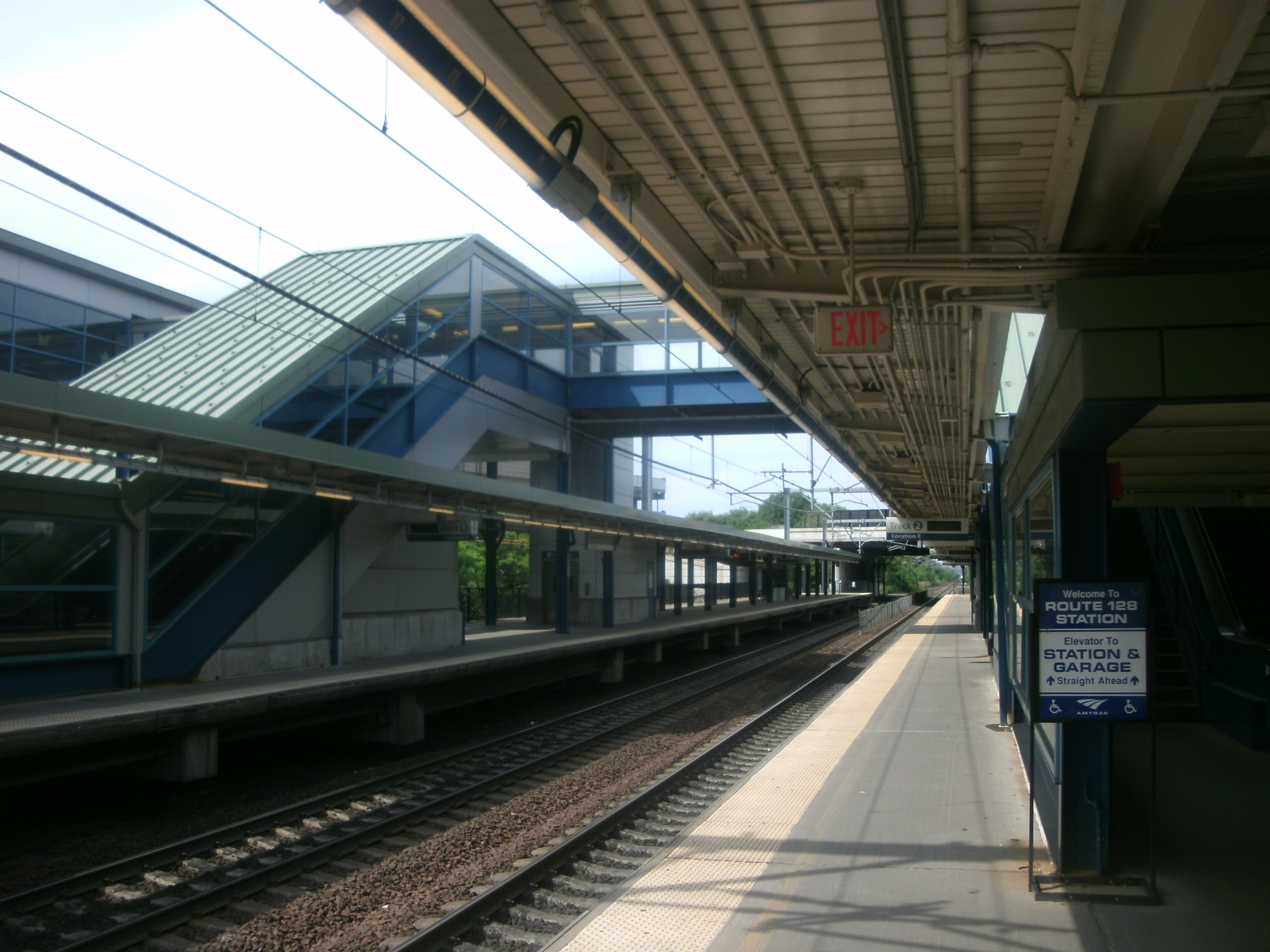 Looking north from the inbound (northbound) platform at Route 128 station